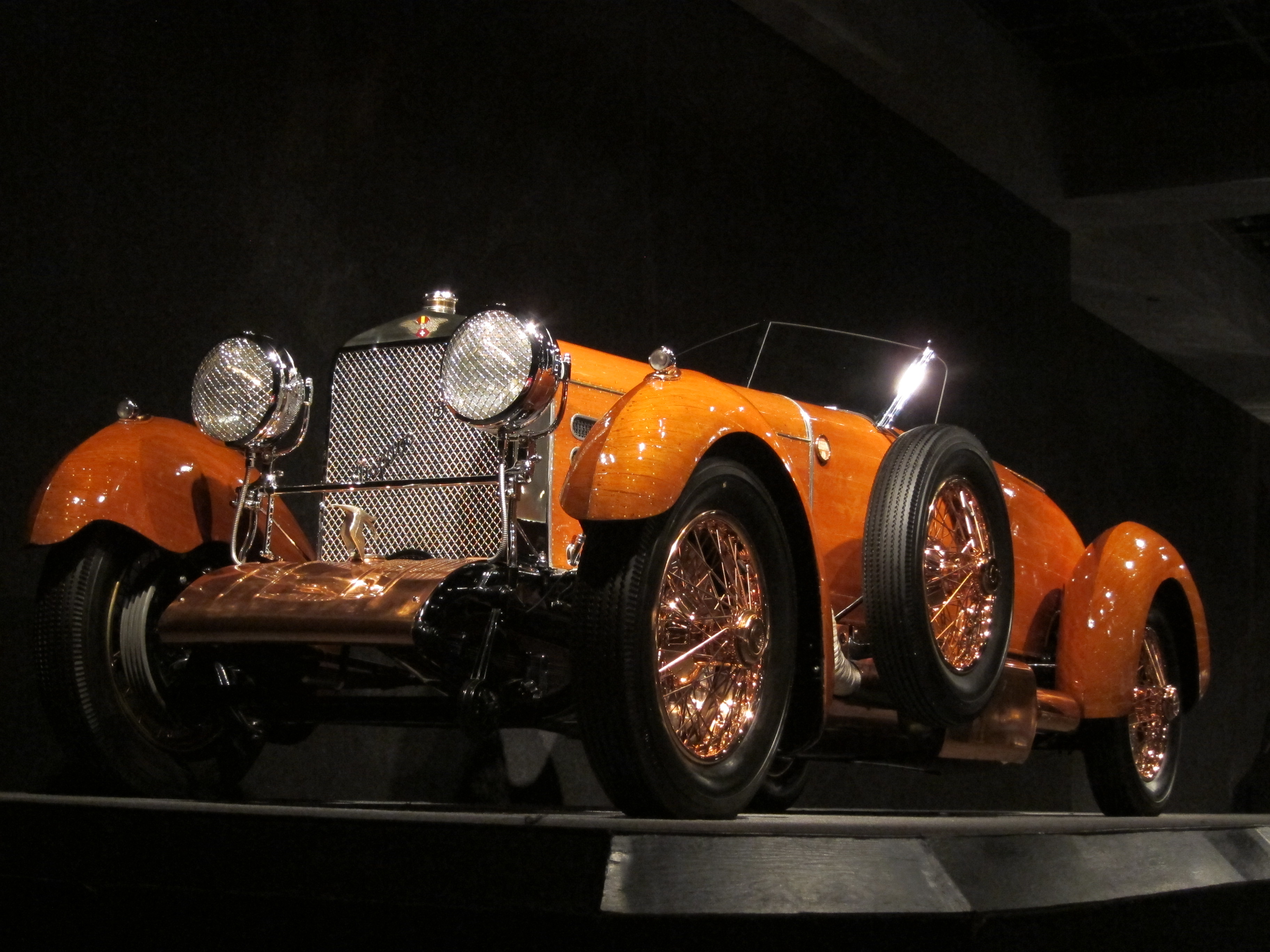 1924 Hispano-Suiza Model H6C 'Tulipwood' Torpedo In 1924 the 'Tulipwood' Torpedo was commissioned by André Dubonnet who, at the age of 26, was an accomplished aviator and rececar driver. The Dubonnet family had amassed a fortune from the aperitifs and cognacs that continue to bear the family name. Dubonnet contracted the Nieuport Aviation Company to build a lightweight body suitable for both racing and touring. Nieuport craftsmen formed a frame of wooden ribs measuring up to 3/4-inch thick which were covered with 1/8-inch wooden veneer. Strips of tulipwood of uneven thickness and length were fastened to the veneer with thousands of brass rivets. The body was then sealed, sanded and varnished; when fully equipped, the body was to have weighed approximately 160 pounds. The torpedo tail enclosed a 46-gallon gas tank for long distance racing. In 1924 Dubonnet entered the Hispano-Suiza in the Sicillian Targa Florio and he finished 6th, he also finished 5th in the Coppa Florio and first in the over 4.5-liter class. Engine 6 cylinder, SOHC 4.33" bore, 5.51" stroke 487 cubic inch 200 hp @ 3,050 RPM Price when new: $15,000+ Body/Coachbuilder Nieuport Astra Aviation Company Bois-Colombes, France Manufacturer Sté Française Hispano-Suiza Bois-Colombes, France Description courtesy of signage posted at Blackhawk Museum.